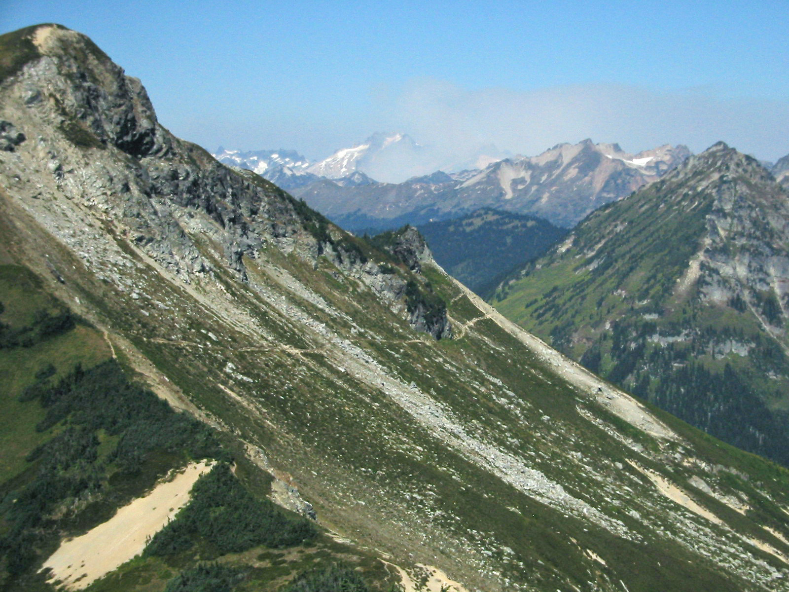 Helmet Butte Pt. 7276 feet (left foreground with High Pass Trail traversing east slope), Dome Peak 8920+ feet (center, with smoke from the Mineral Park forest fire complex), Plumber Mountain 7870 feet, 7400+ feet (right), Glacier Peak Wilderness